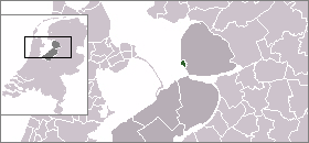 Location of Urk